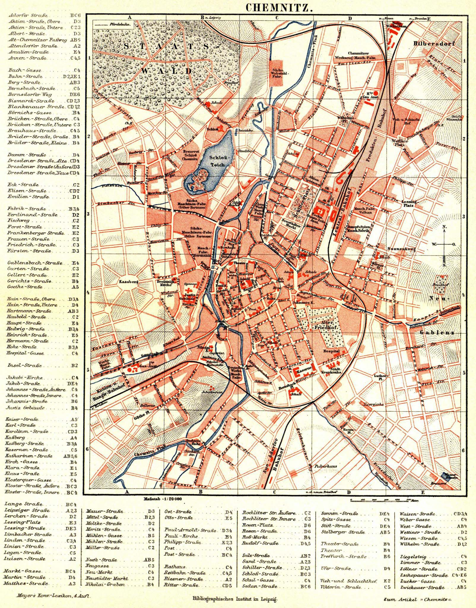 Meyers Lexikon — Vol. 3 — Page 998 a — Plate I: City Map of Chemnitz